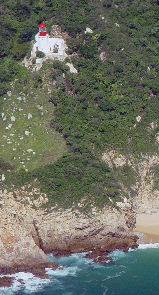 Lighthouse at Cape Corrientes, Bahia de Banderas, Mexico.